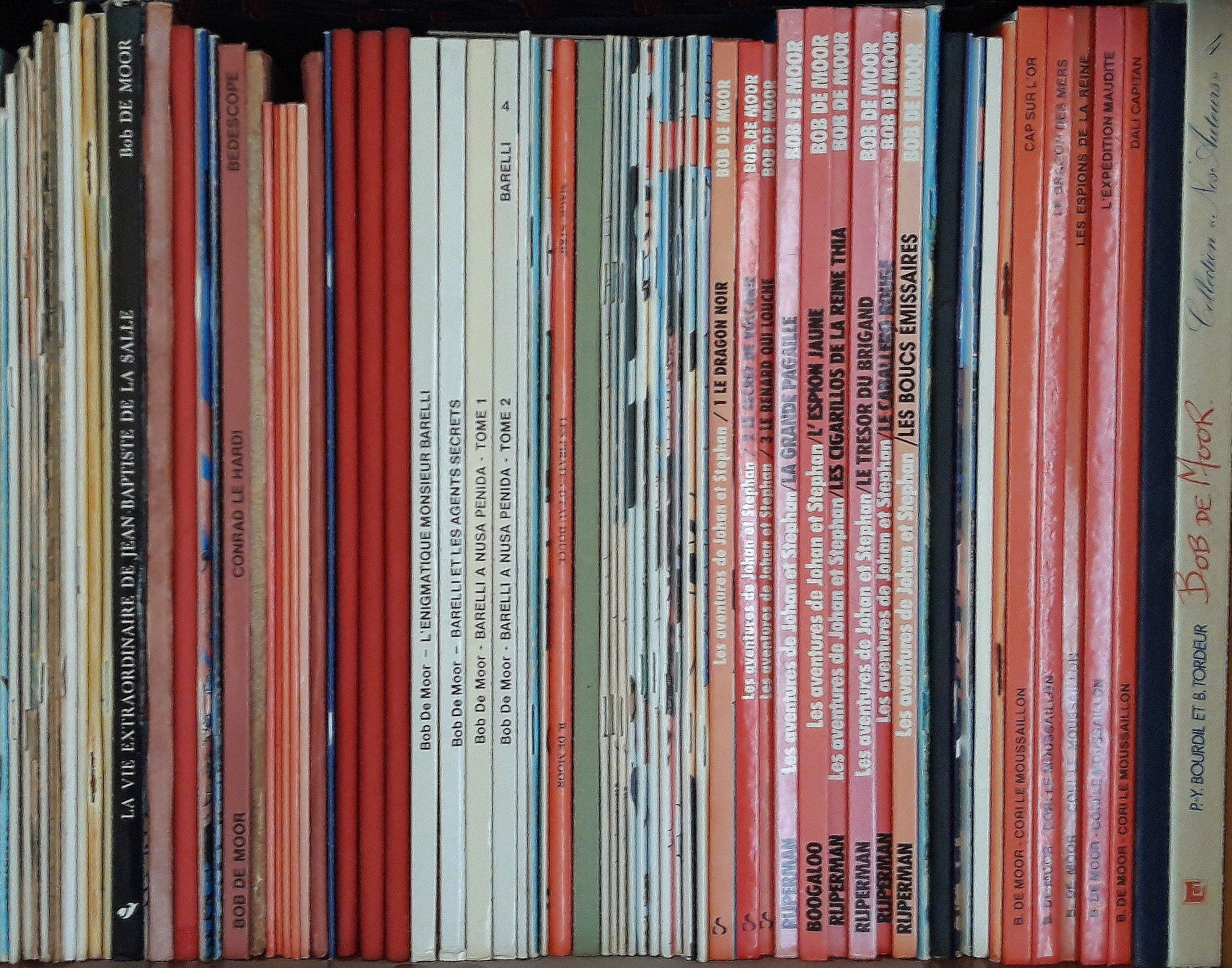 De Moor books